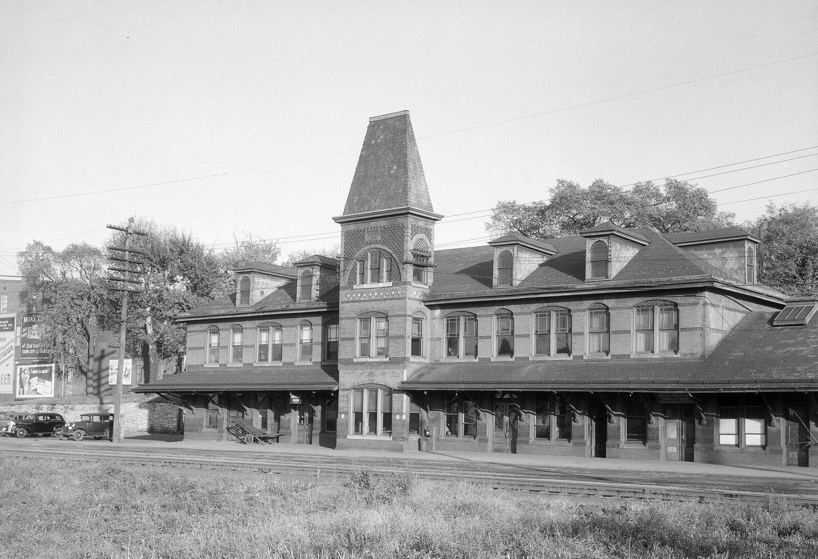 Image of Cumberland Valley Railroad (CVRR) station, Walnut St. between W. Washington St. and Green Lane (later Antietam St.), Hagerstown, Maryland. The station was built c. 1883, demolished in the 1960s. The station also served the Norfolk and Western Railway. CVRR was acquired by the Pennsylvania Railroad in 1919.